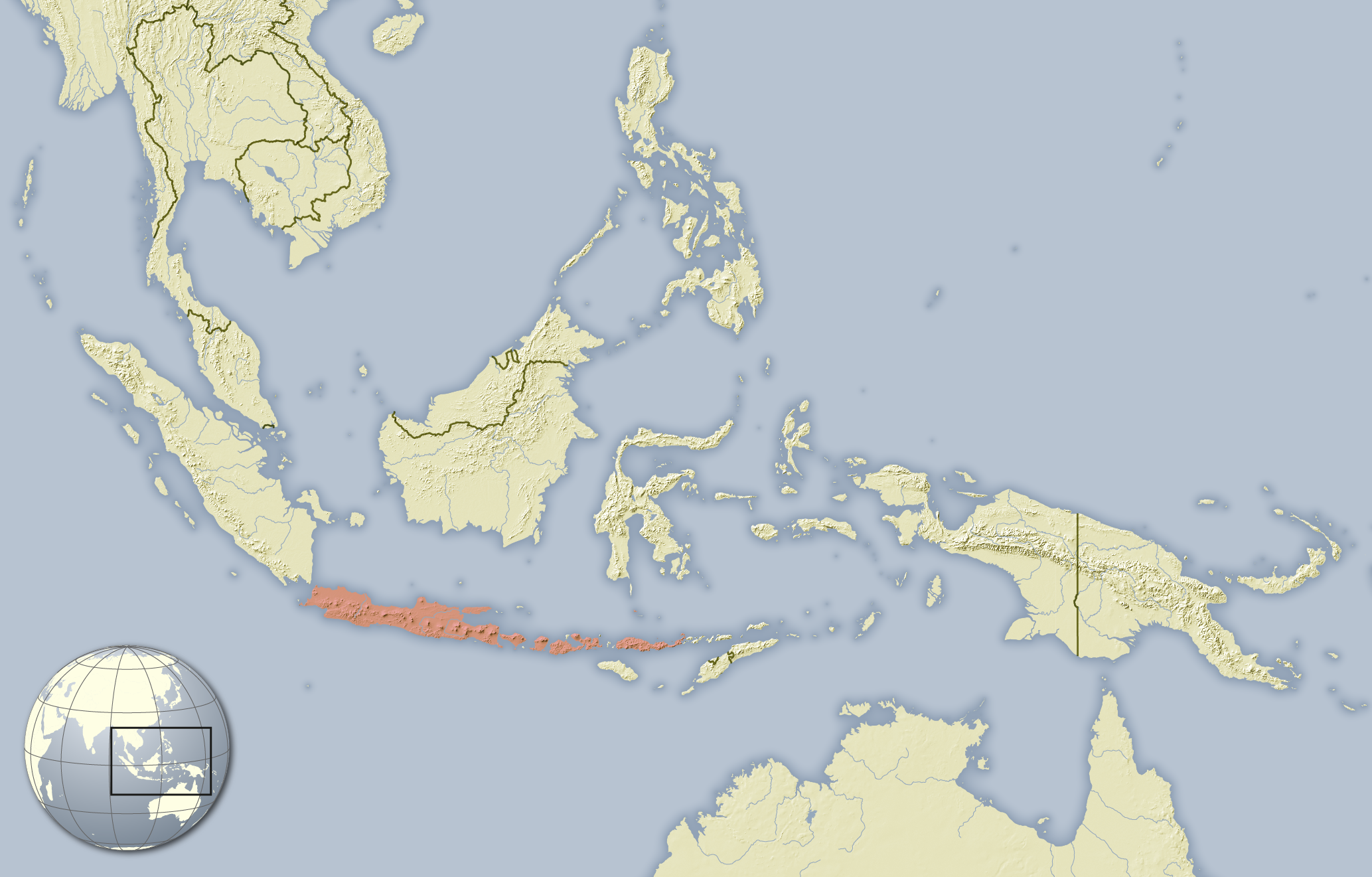 Distribution map of the Sunda porcupine